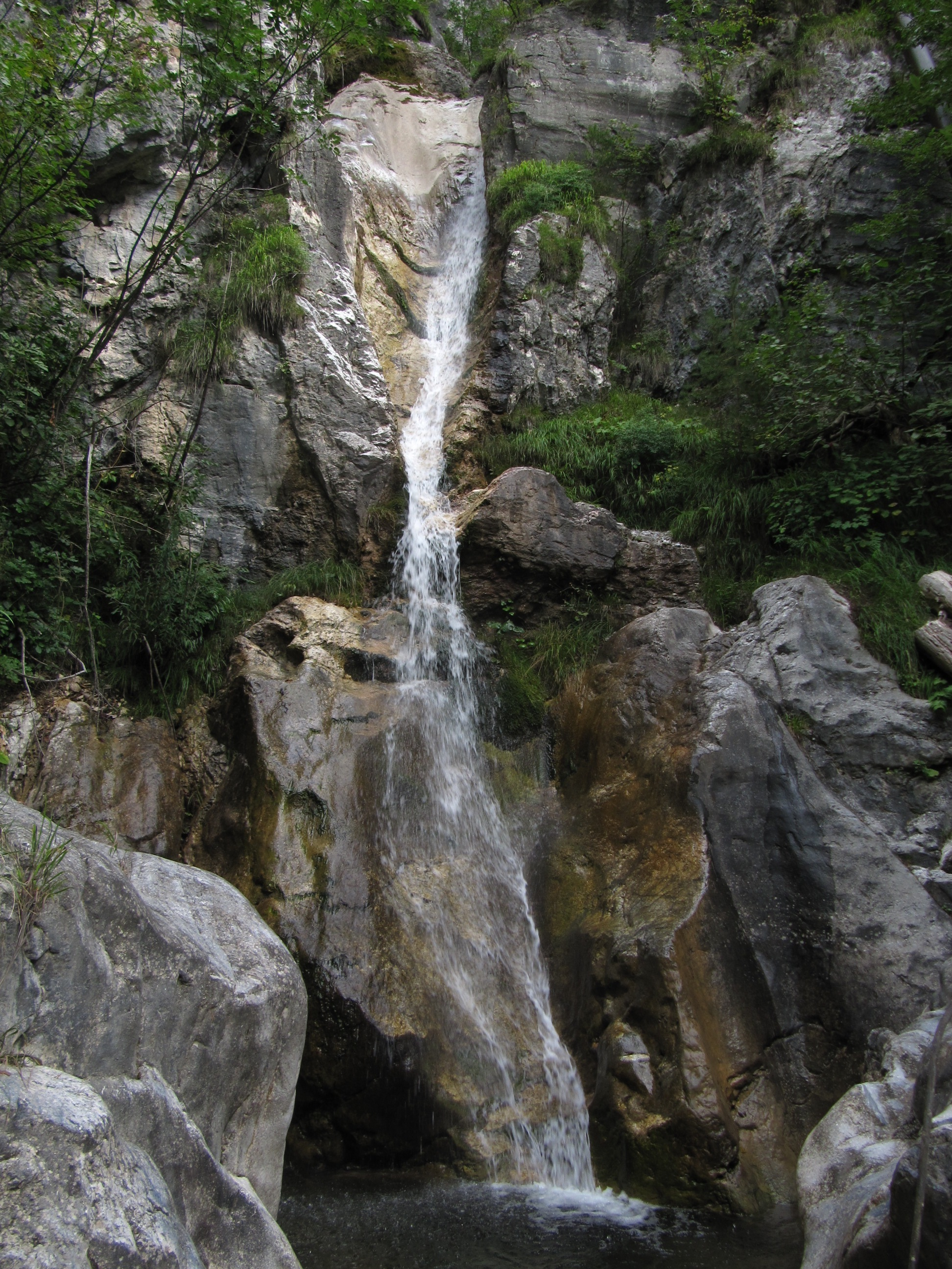 Jerman stream and waterfall in Karavanke, Slovenia